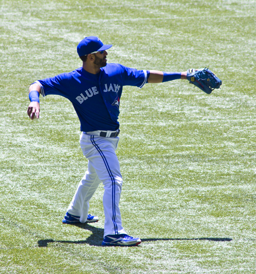 A photo of José Bautista warming up on June 30, 2012 prior to game against the Los Angeles Angels of Anaheim.